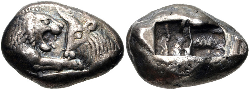 KINGS of LYDIA. Kroisos. Circa 560-546 BC. AR Stater